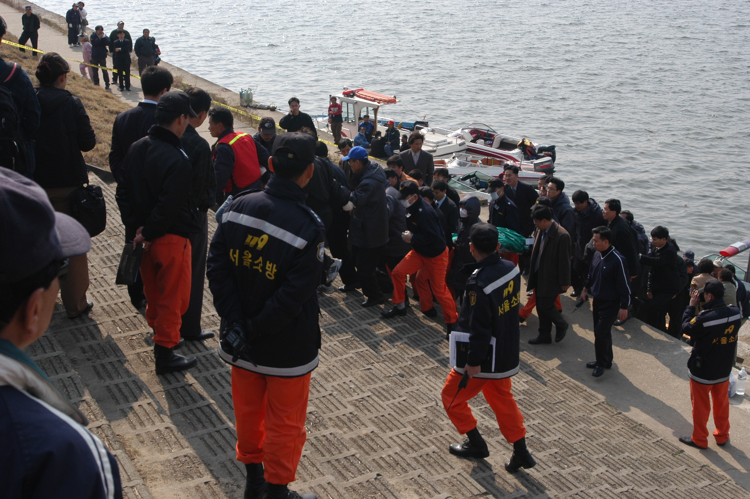 서울특별시 소방재난본부 소장 사진. photos of Seoul Metropolitan Fire&Disaster Headquarters. 이 파일은 크리에이티브 커먼즈 저작자표시-동일조건변경허락 4.0 국제 라이선스로 배포됩니다. 단 누구인지 구별 가능한 특정 인물이 사진에 포함되어 있을 경우 사용 전에 서울특별시 소방재난본부 및 해당 인물의 승인을 받으셔야합니다. 감사합니다. evidence of permission